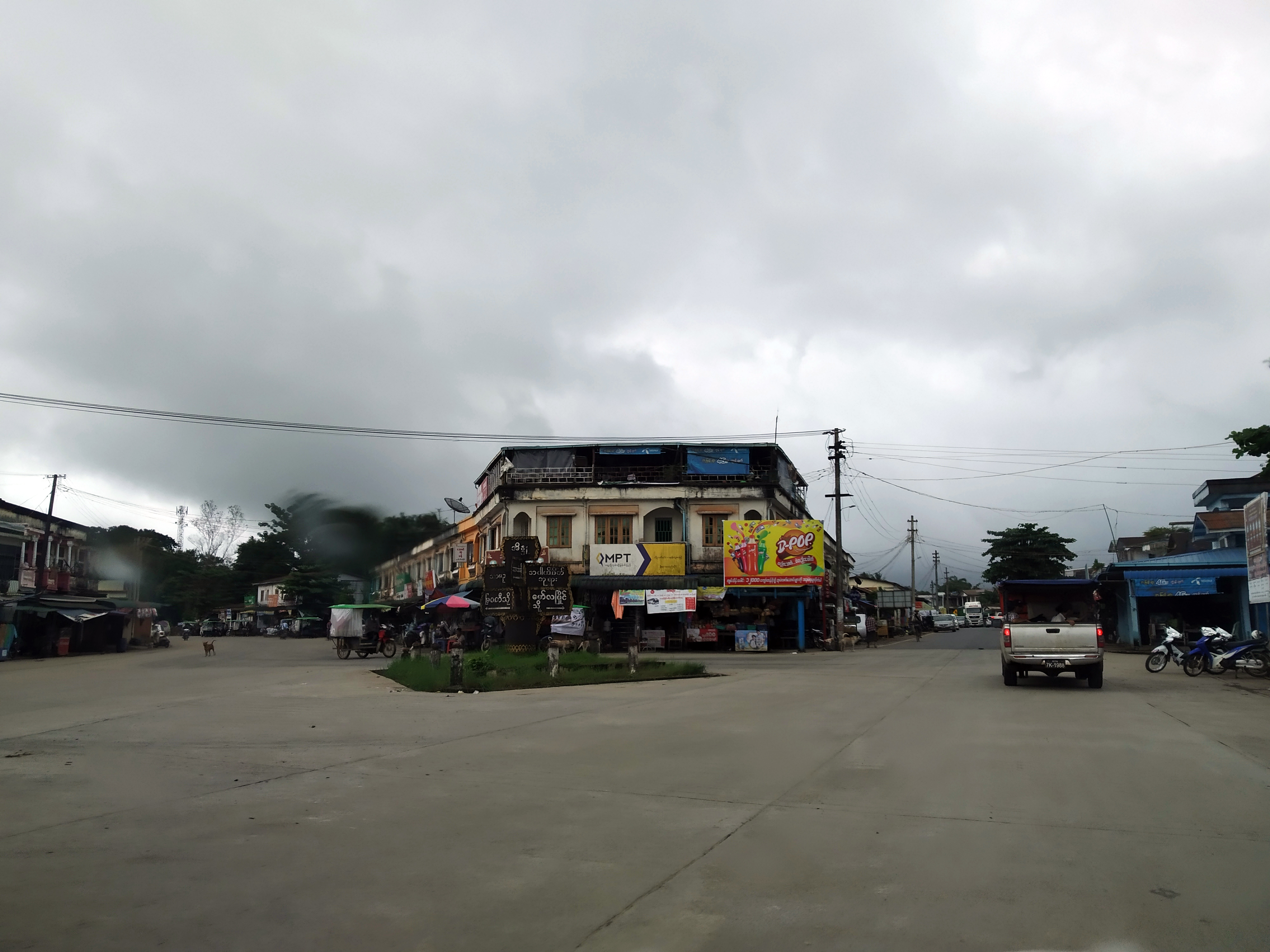 Eindu is a village in Hpa-an Township, Kayin State, Myanmar